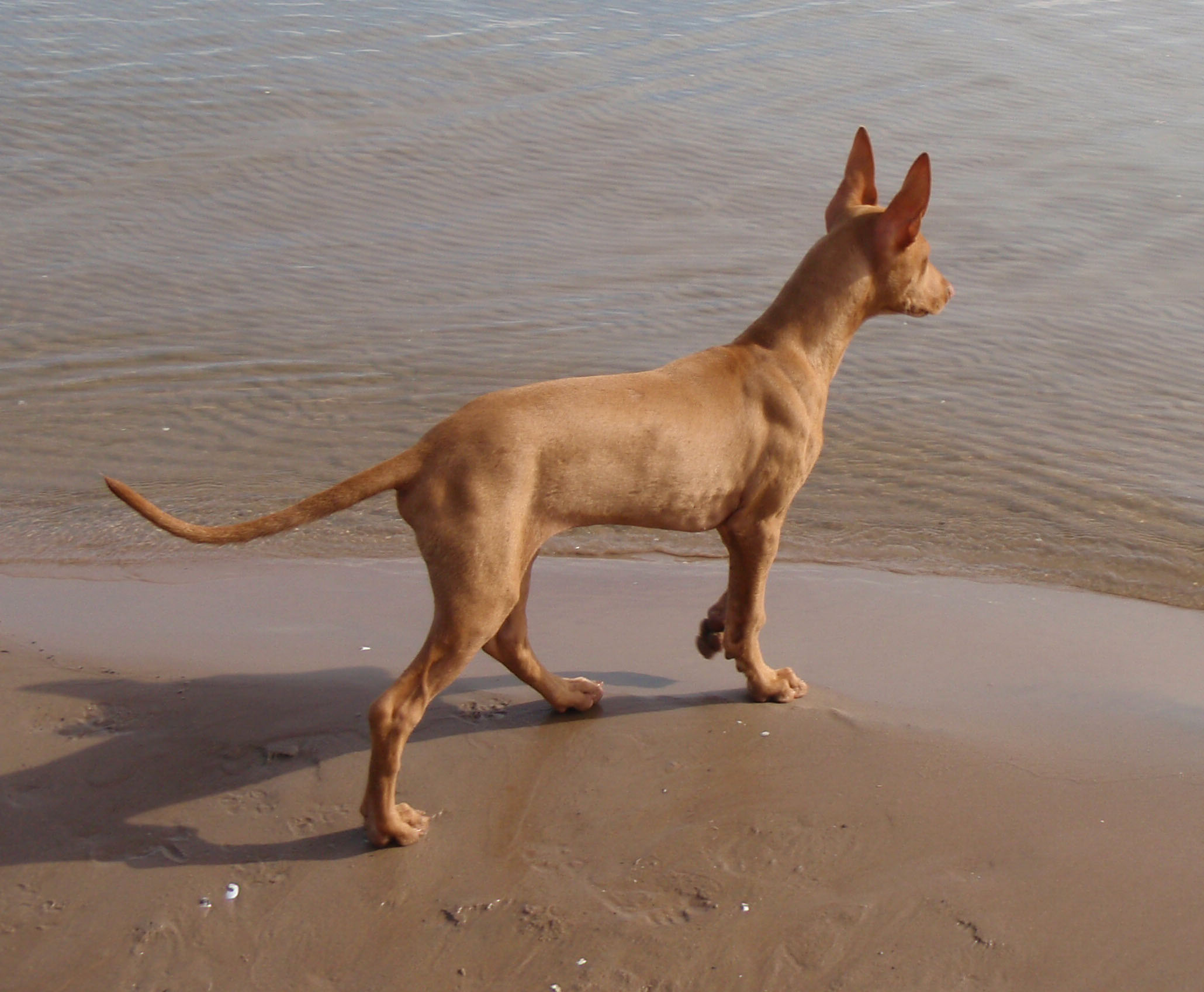 Pharaoh Hound.